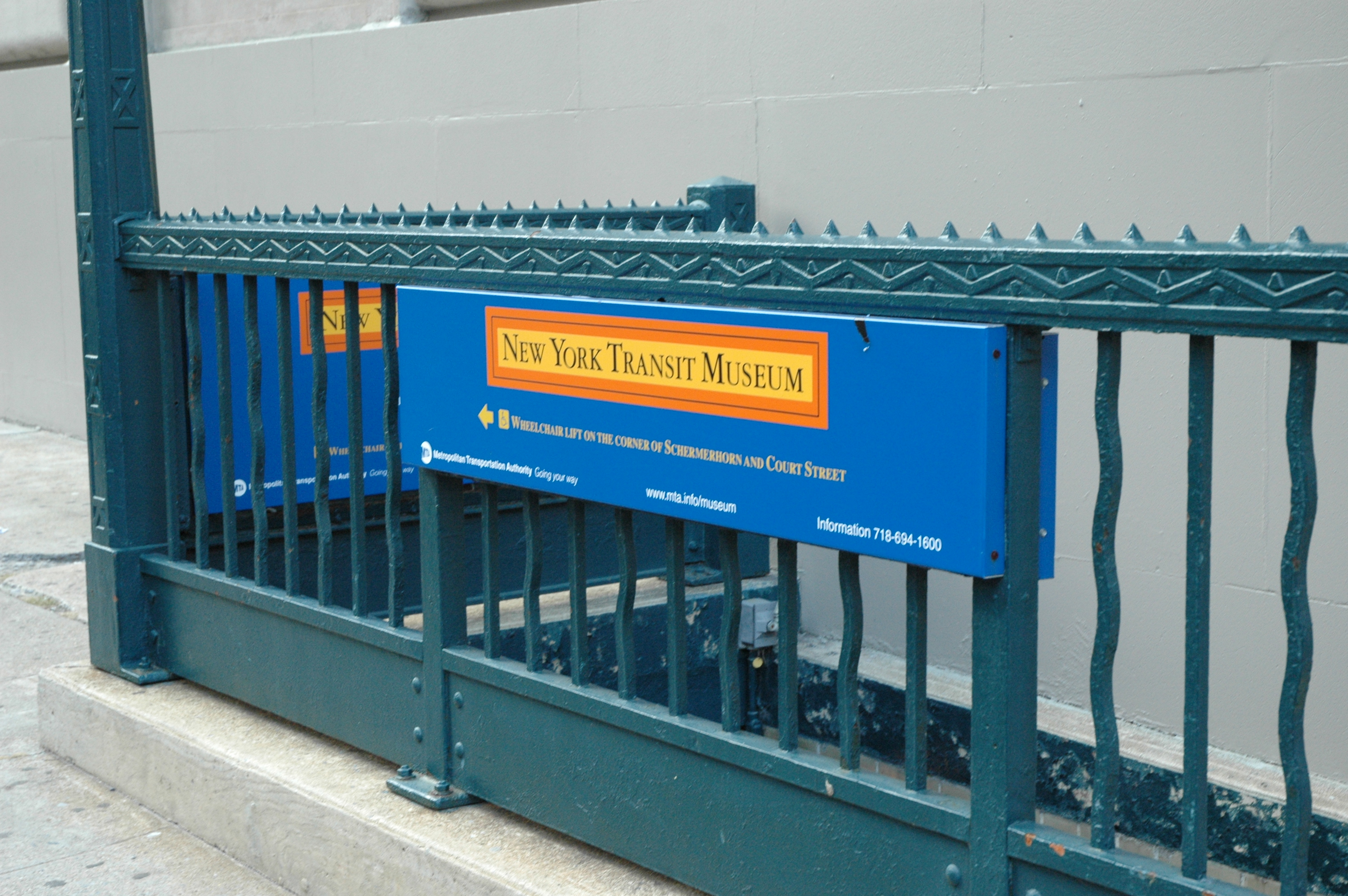 This photo is of Wikis Take Manhattan goal code J48, New York Transit Museum.